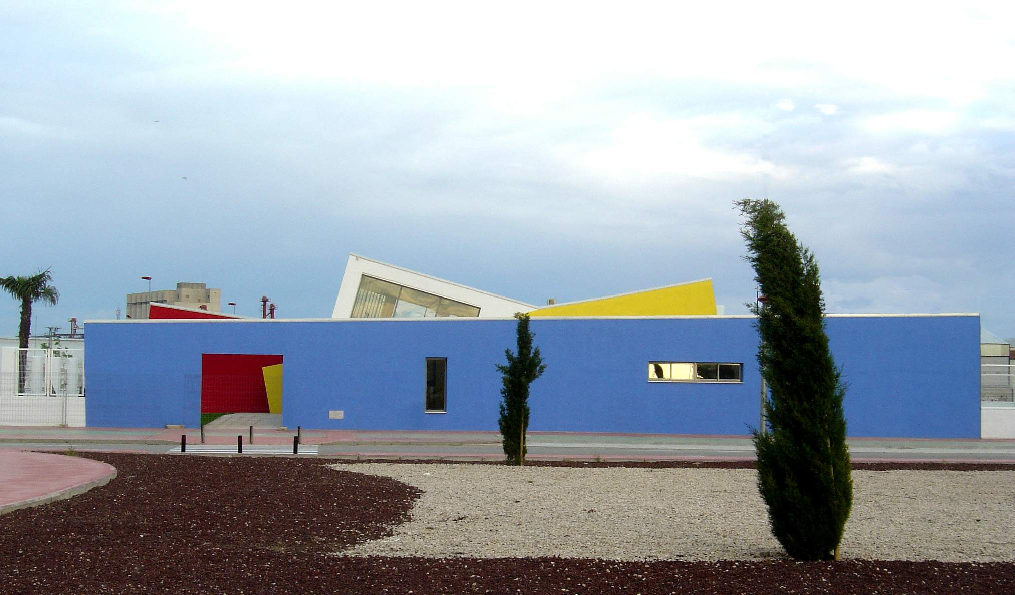 Kindergarden in Albacete (Spain)